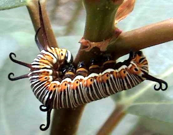 Caterpillar of Common Crow (Euploea core) on wild fig (umbar)